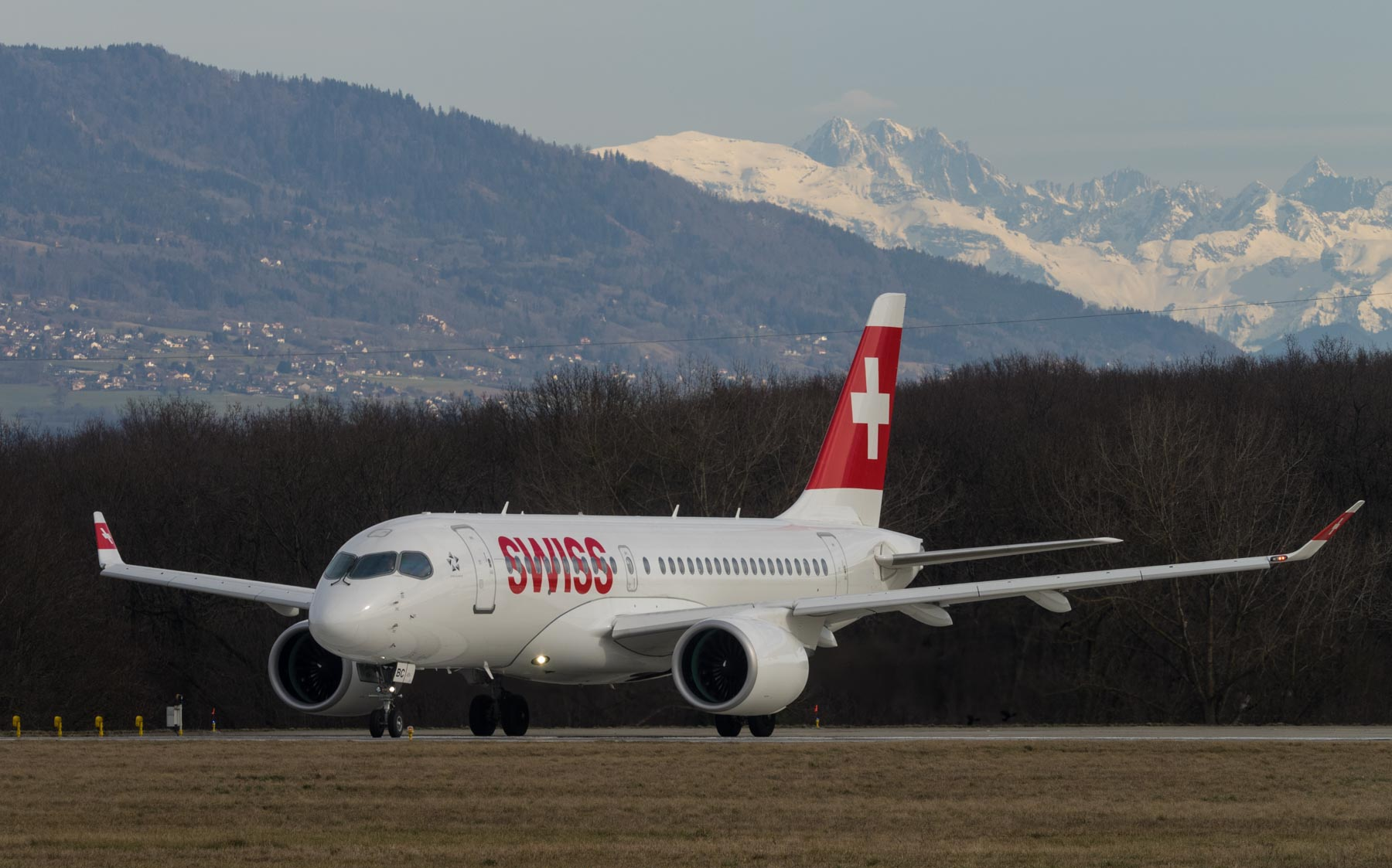 GVA Etang de Colovrex